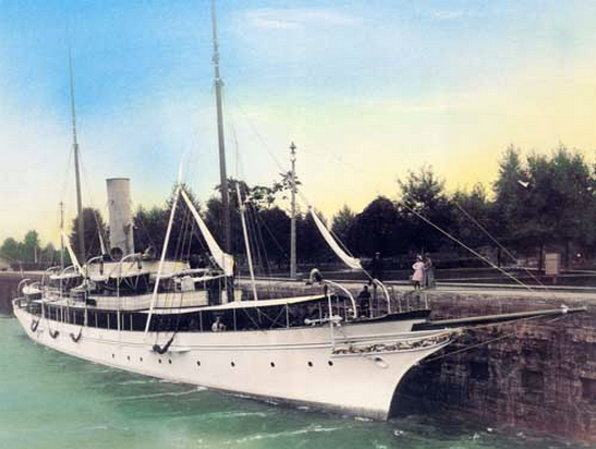 The yacht Gunilda, owned by William L. Harkness hit shoals on lake Superior and was sunk in 1911.